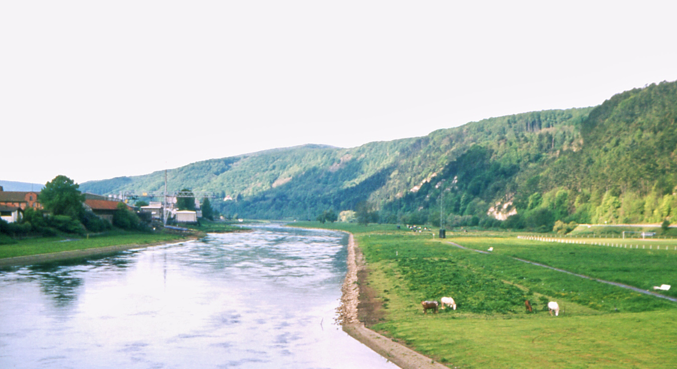 Weser valley, southward view from the old bridge in Bodenwerder, Germany